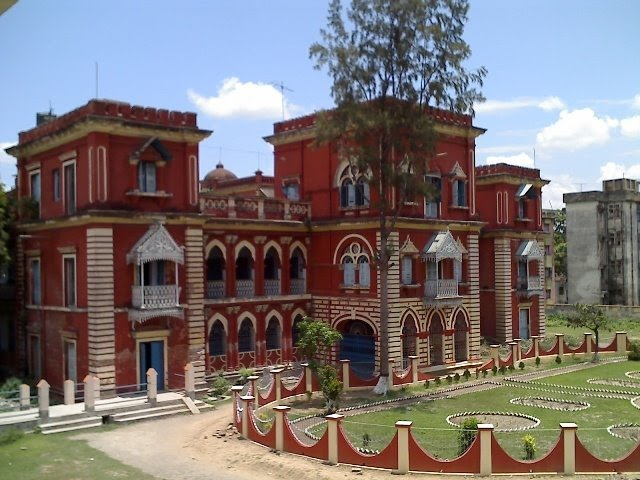 Collegiate School